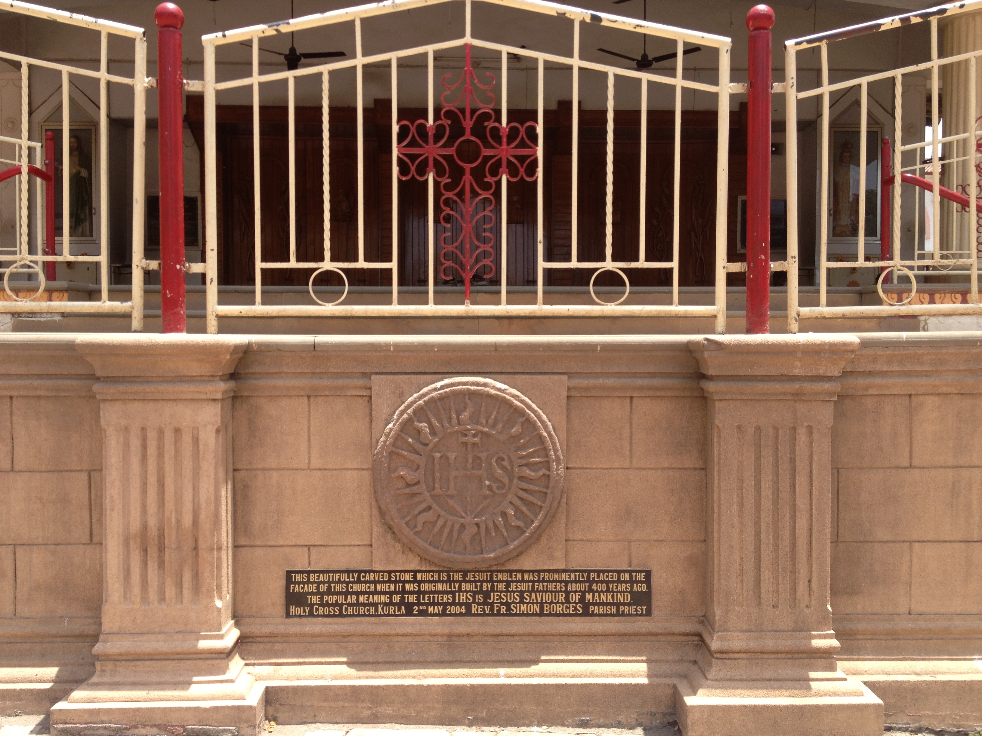 Carved stone at Kurla Church.